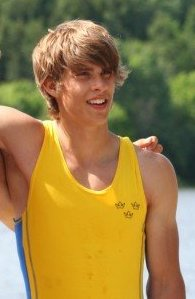 Rower Kevin Hermansson of Sweden taking medal in the Nordic championships.